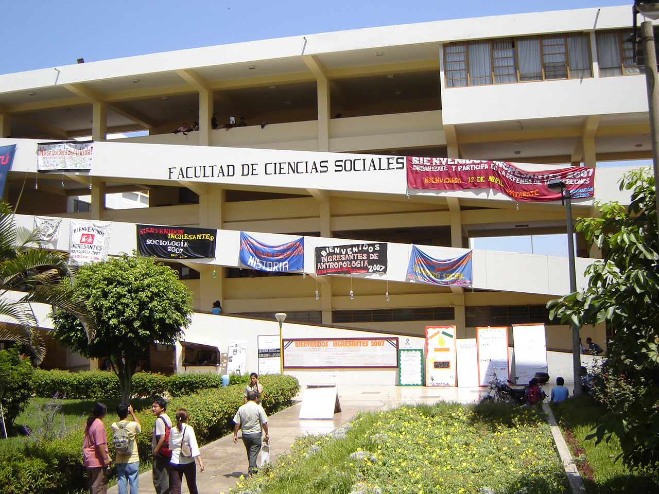 Front facade of the Faculty of Social Sciences building at the National University of San Marcos in Lima, Peru.